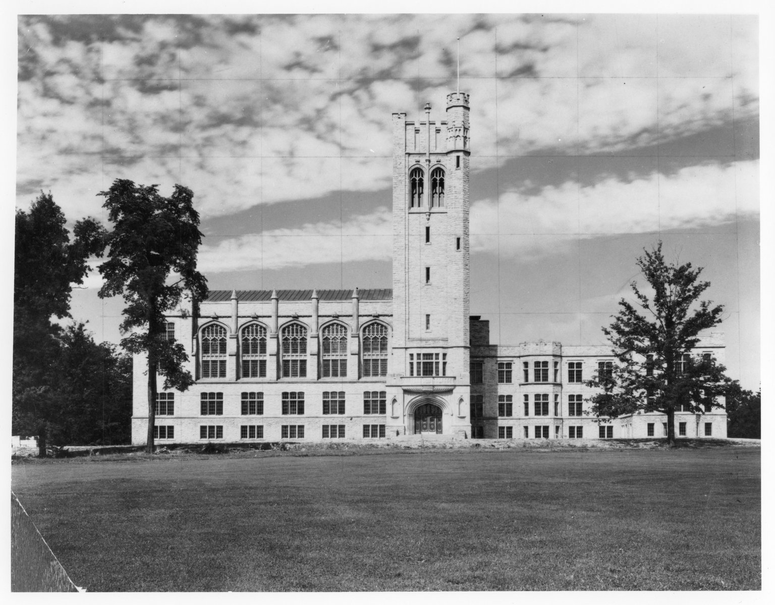 A black and white photograph of the arts building (now University College) at the University of Western Ontario.